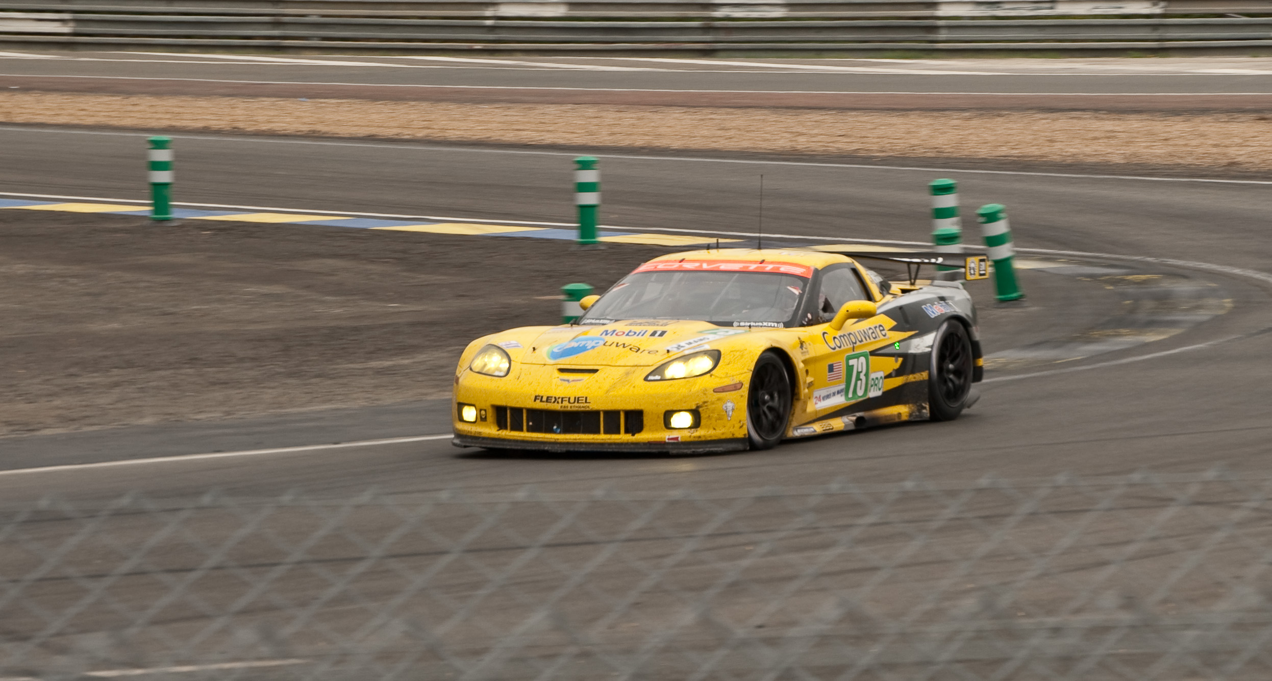 Chevrolet Corvette C6.R #73 from the team Corvette Racing at the 24 hour race in Le Mans 2011, finished 1st in class (LM GTE Pro) and 11th overall after 314 laps